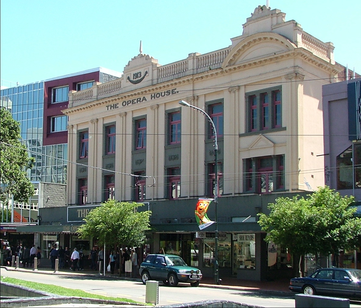 The Opera House (in Wellington) on a sunny January day, around 12:00 o'clock. The greenery in the bottom of the picture is Te Aro Park - which is a triagular shaped piece of greenery in the fork of Manners Street and Dixon Street. New Zealand Historic Places Trust Register number: 1432.